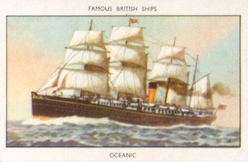 White Star Liner Oceanic (1871)